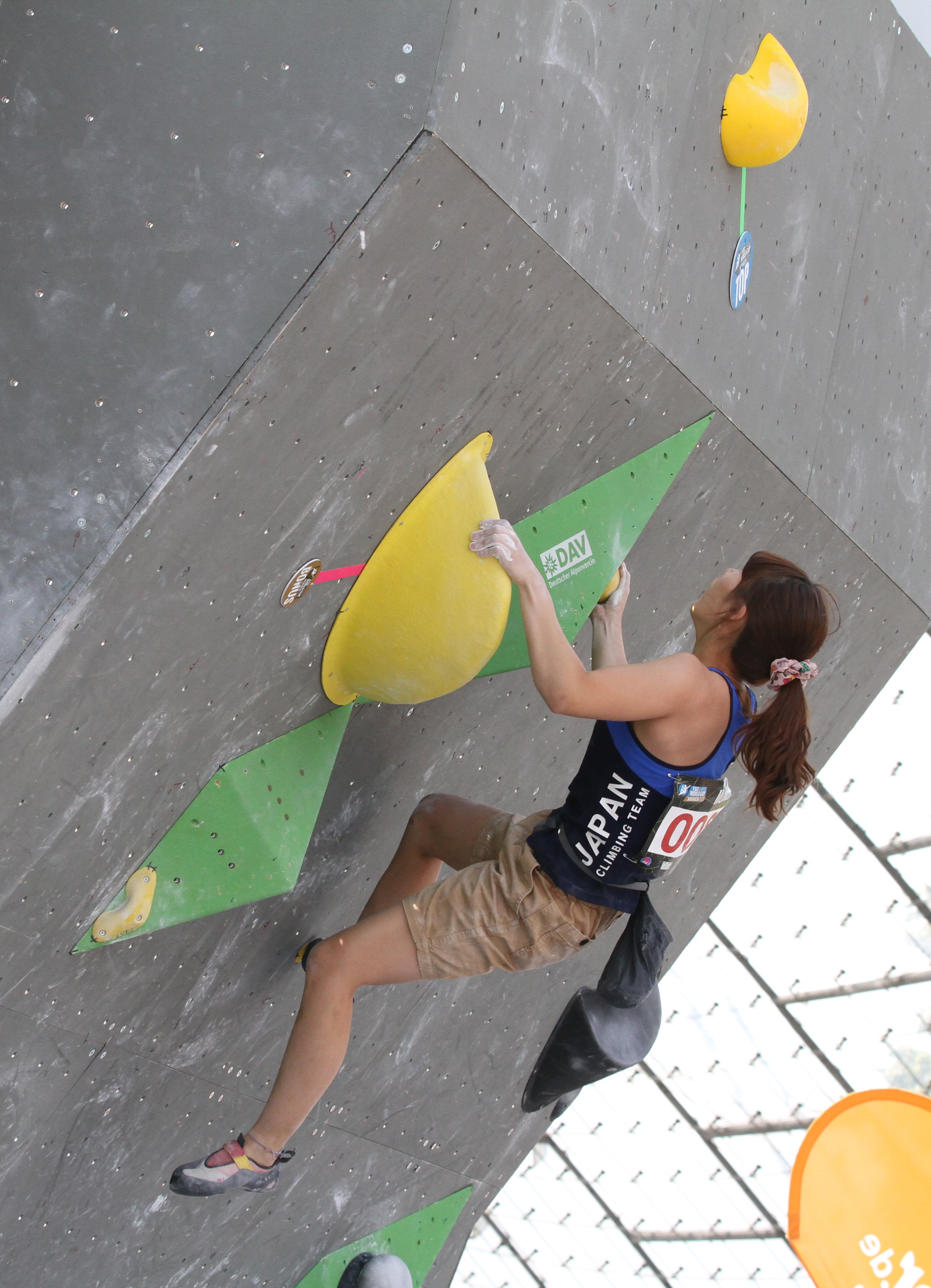 IFSC Boulder Worldcup, Munich 2015. Aya Onoe (JAP)